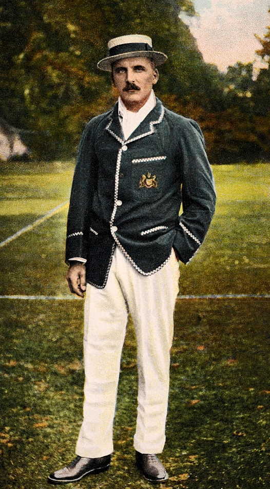 Lancashire and England cricketer, Archie MacLaren, featured on a vintage postcard, circa 1905.